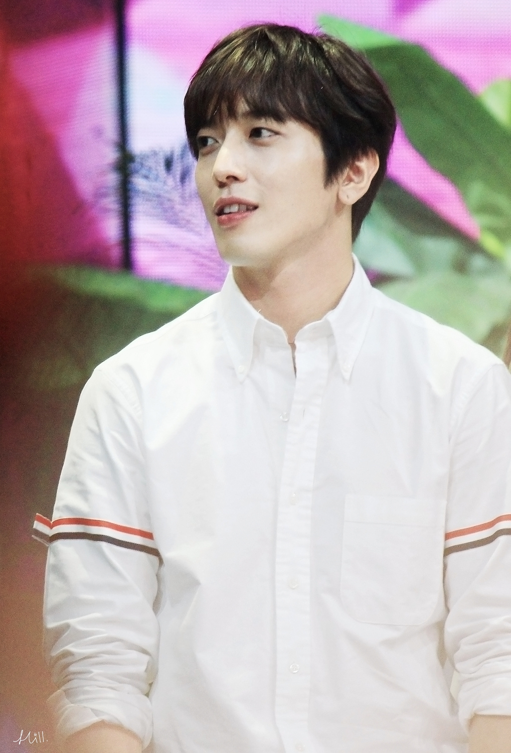 Jung Yong-hwa filming for Happy Camp on August 27, 2015.